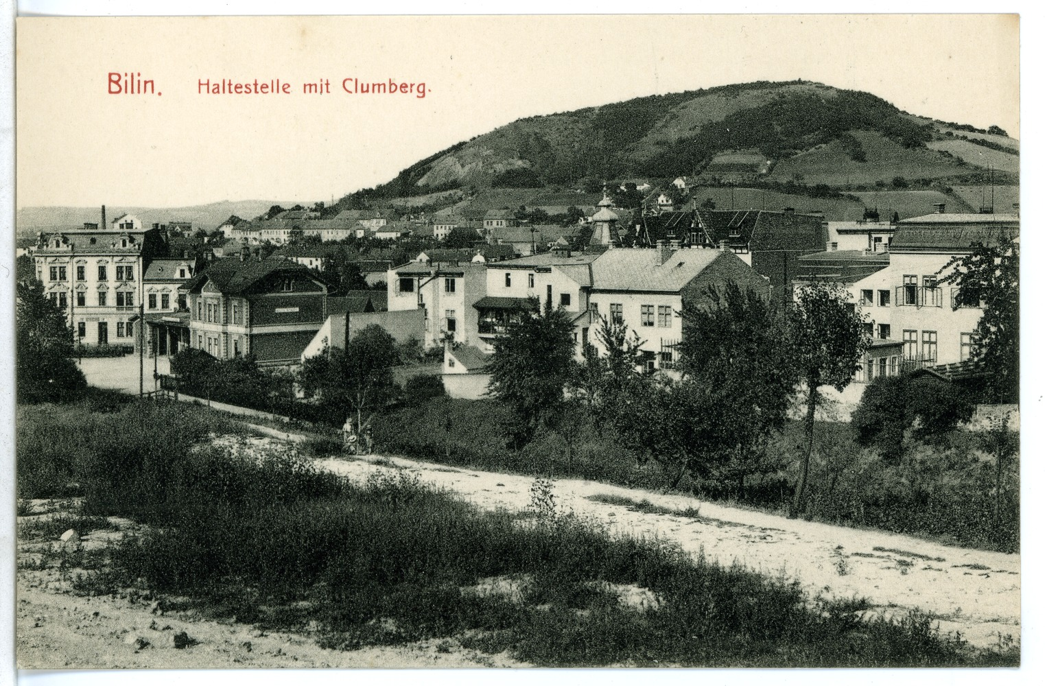 This postcard is from publisher Brück & Sohn in Meißen ( This postcard has a unique number 08491 and is available in a higher resolution at the publisher. This images was uploaded in a cooperation project between Wikipedians and the publisher.